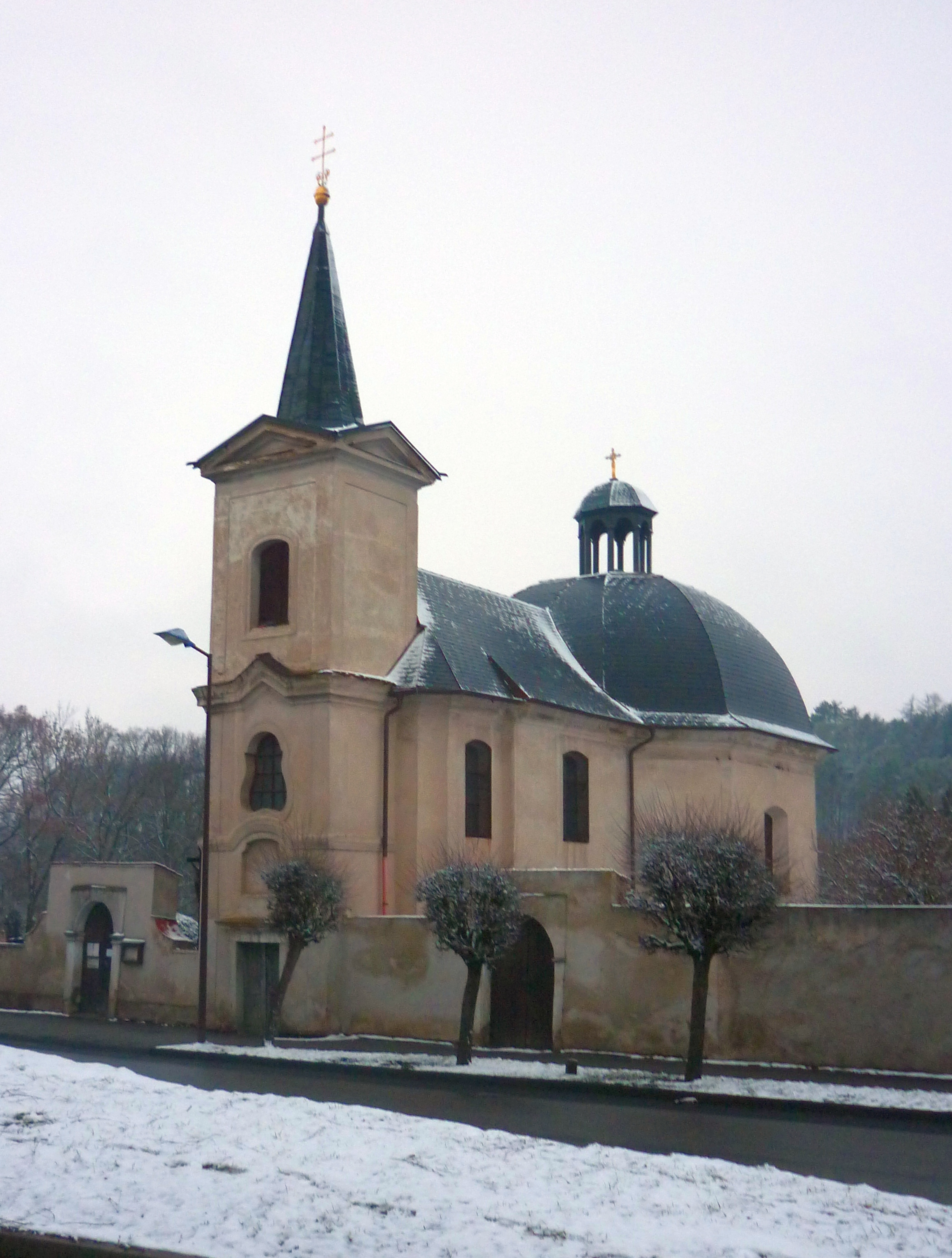 Church of st. Roch in Žebrák (Czech Rep.)